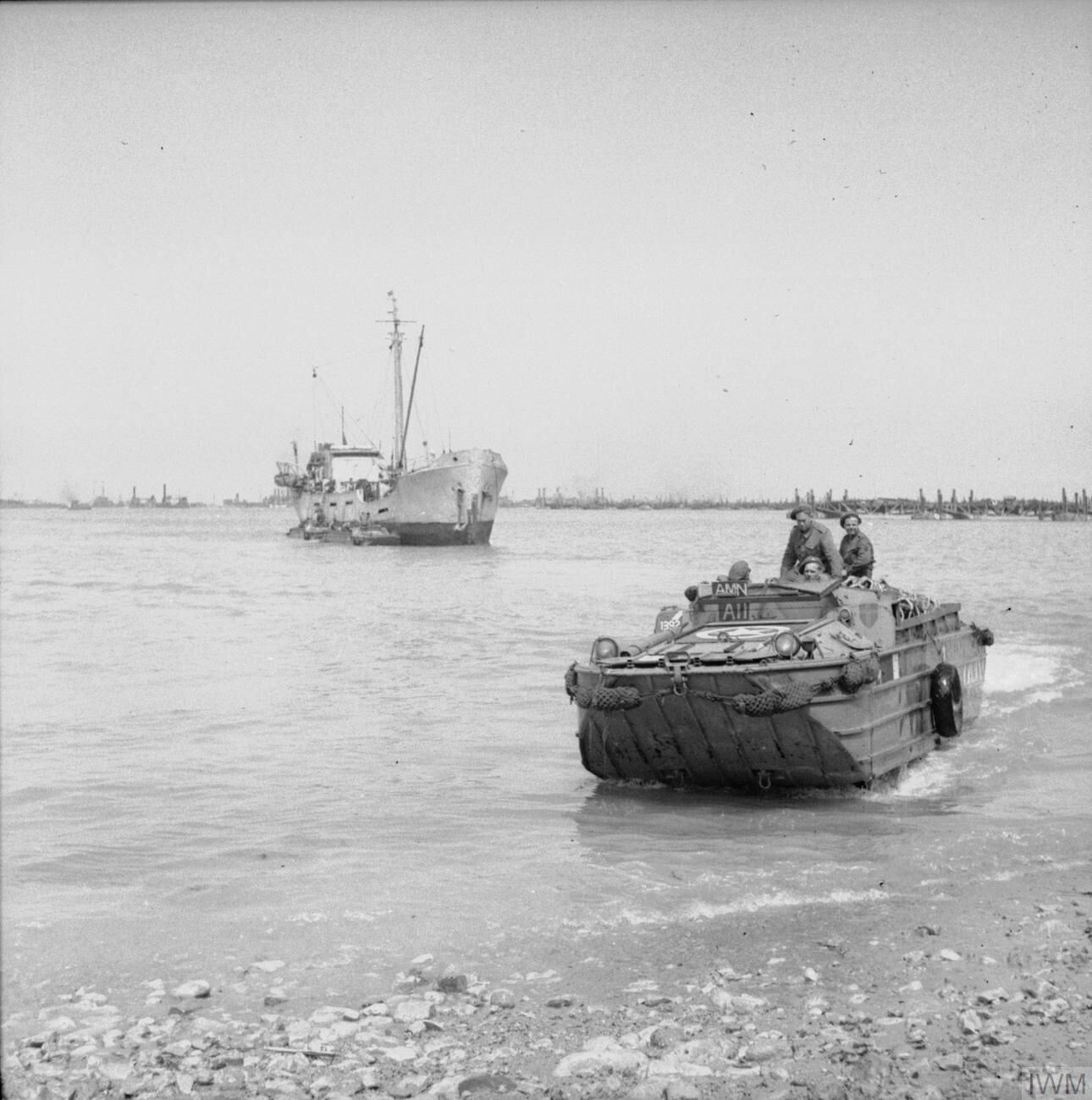 The British Army in Normandy 1944 A DUKW bringing ammunition ashore at Arromanches, 22 June 1944.